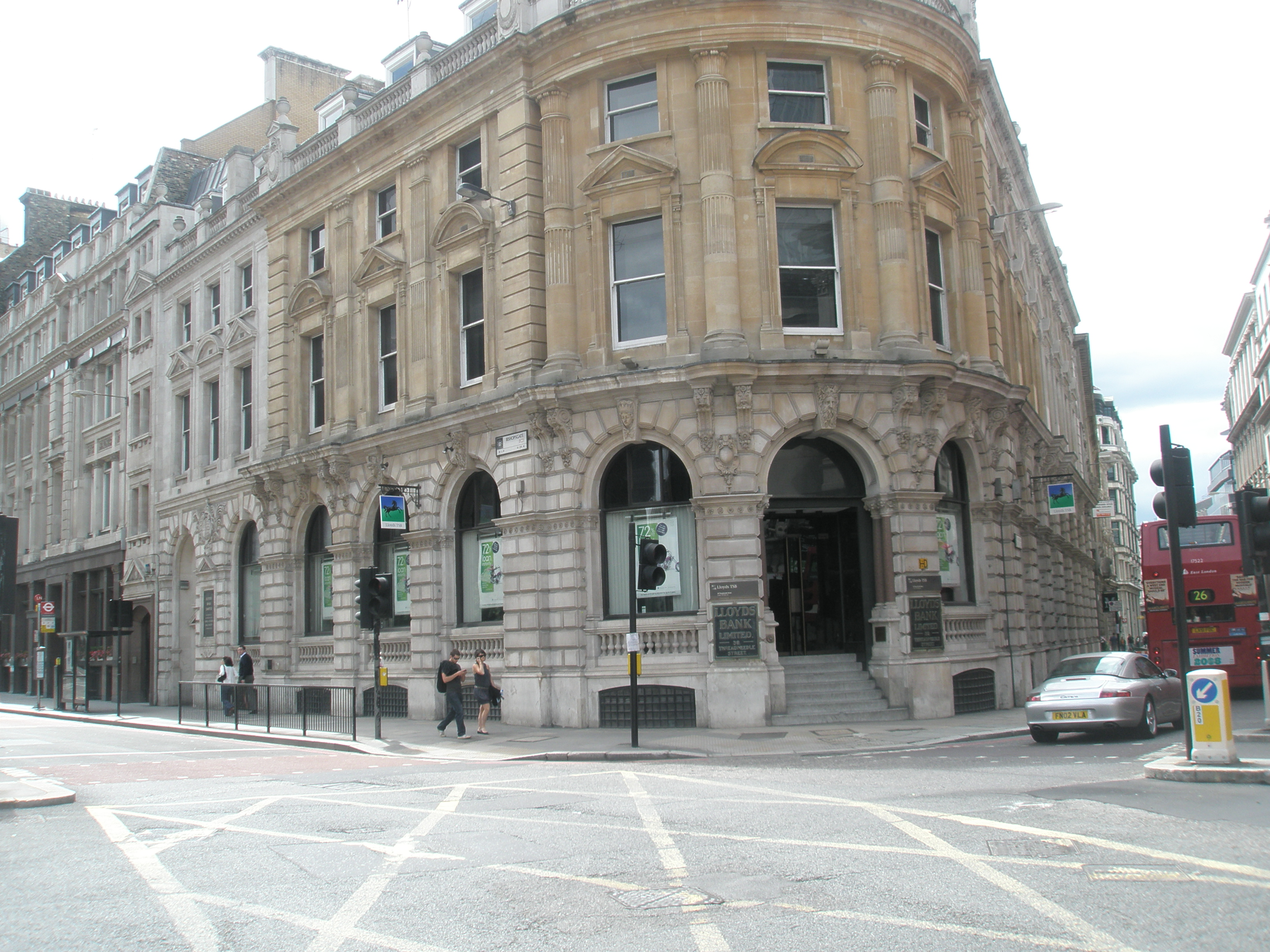 Junction of Threadneedle St and Bishopsgate